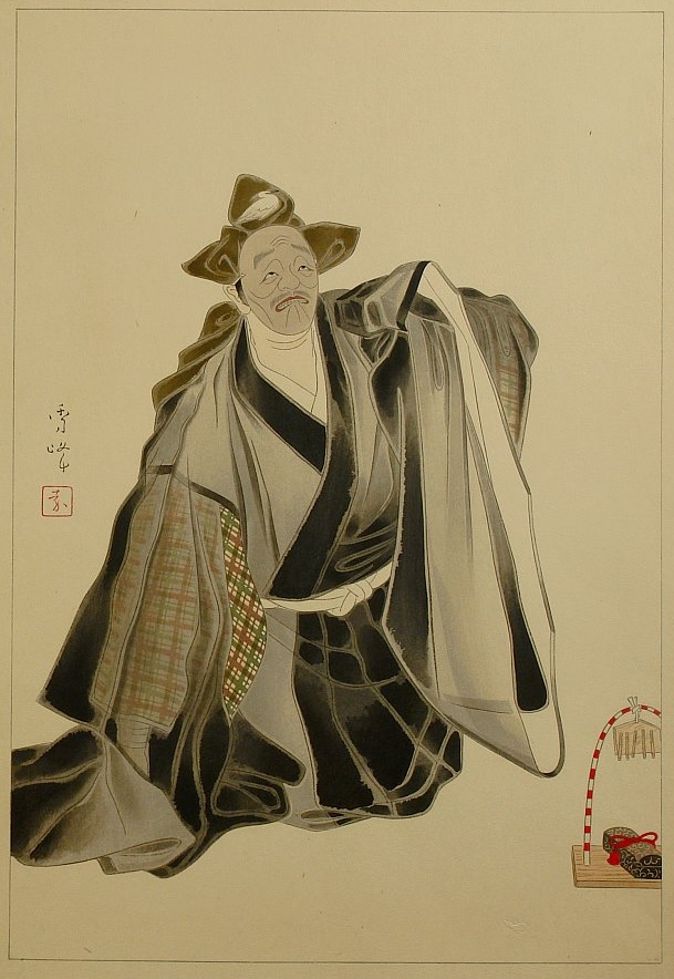 Kyōgen"Konkuwai"